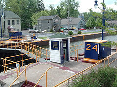 This photograph was taken by Wikipedia member Ebedgert.